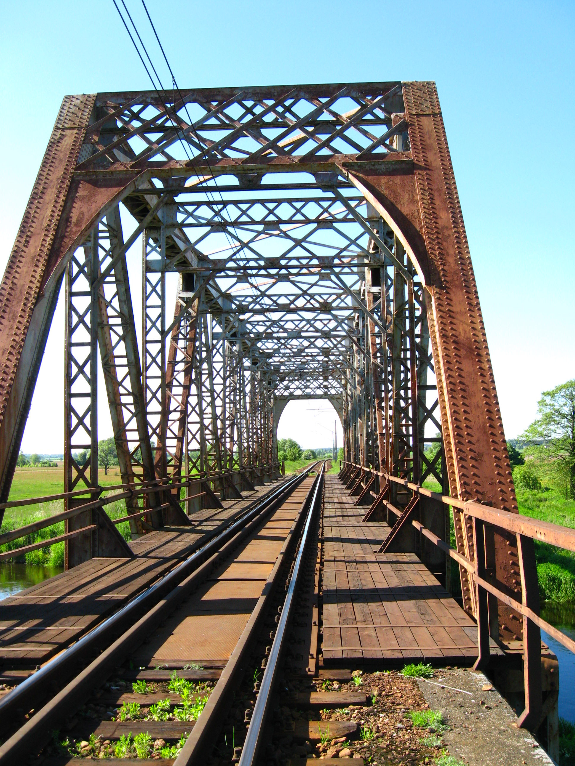 Railroad bridge over Supraśl river by train station „Fasty” at Dzikie